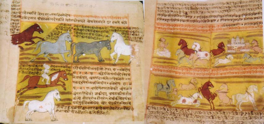 Unidentified "Shalihotra manuscript pages". From Elizabeth Thelen, "Riding through Change: History, Horses and the Reconstruction of Tradition in Rajasthan", p. 37. D Space, University of Washington.